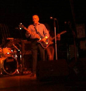 Photograph of Lee Jackson, bass player of The Nice, during the Wolverhampton leg of the Keith Emerson & The Nice tour, 2002